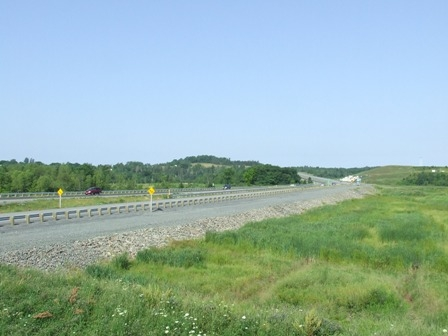 "Battle Hill", St. Croix, Nova Scotia; NS Highway 101 in the foreground